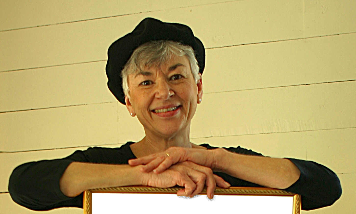 Susan Loy with Love is Patient Literary Calligraphy print 2009